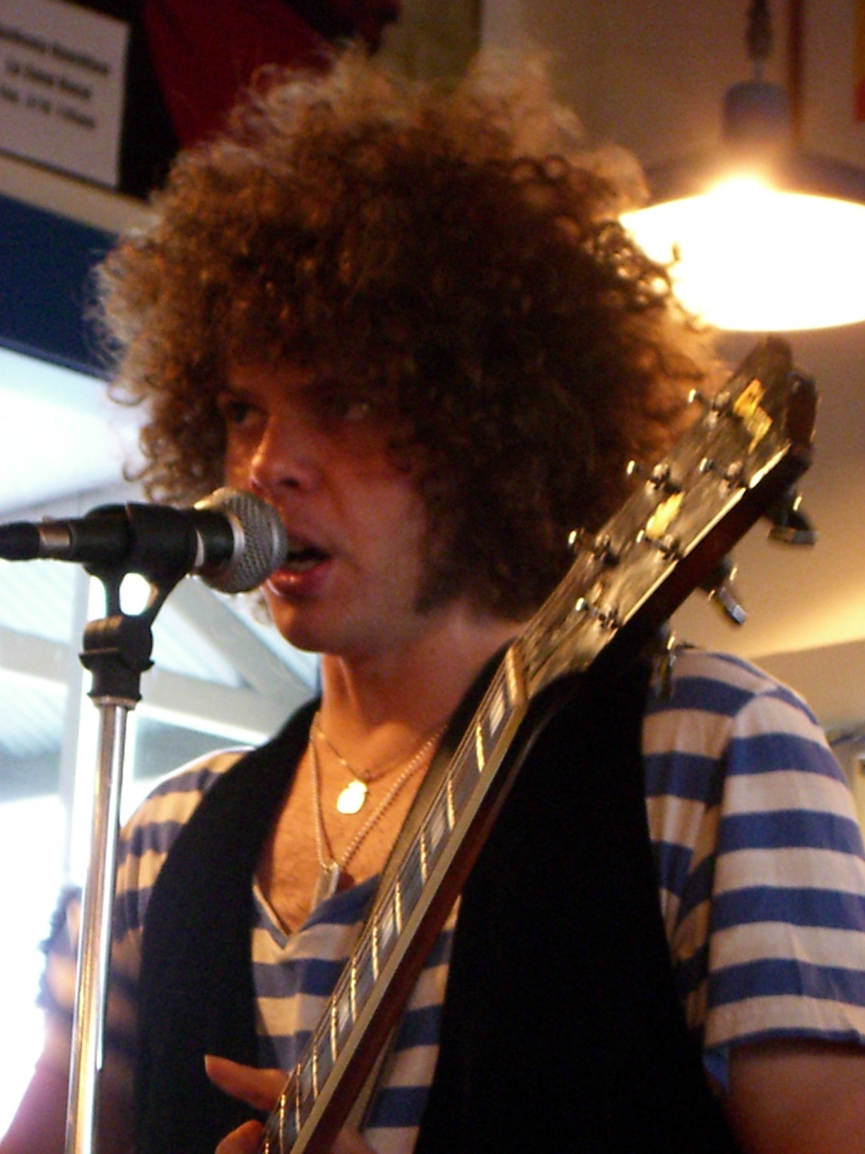 Wolfmother at SXSW 2006